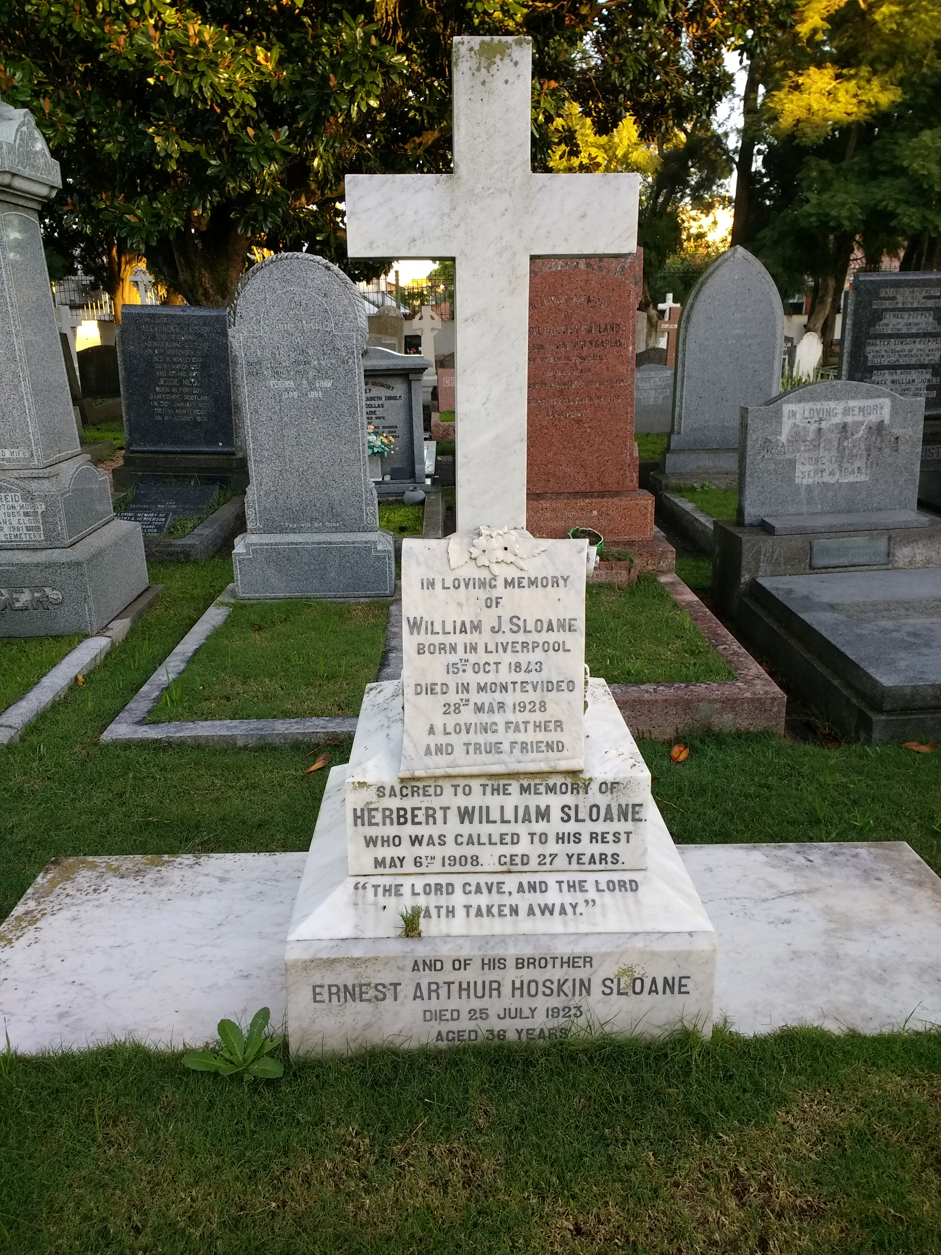 In loving memory of William J. Sloane - British Cemetery Montevideo.